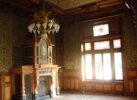 Diningroom of the castle